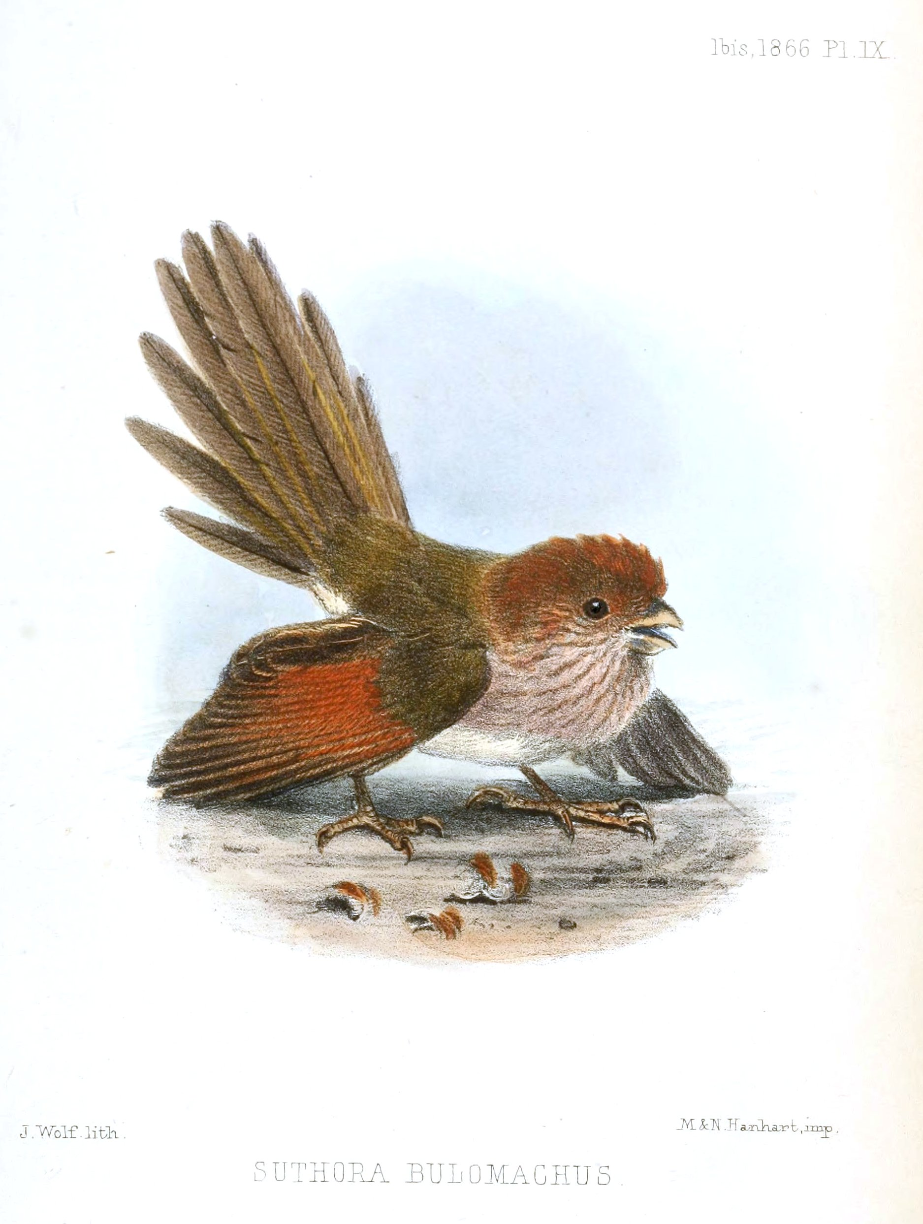 « Suthora bulomachus » = Sinosuthora webbiana bulomachus (Subspecies of Vinous-throated Parrotbill)